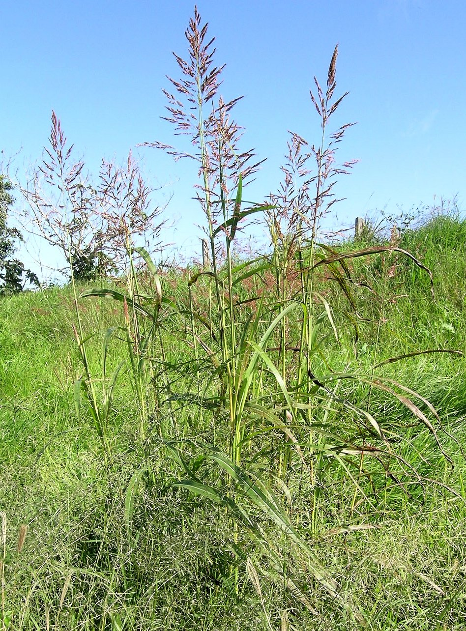 Introduced, warm-season, perennial, grass to 2 m tall; with long, stout rhizomes. A native of the Mediterranean, it is a weed of disturbed areas such as roadsides, stream banks and crops. Most common on floodplains and fertile soils.